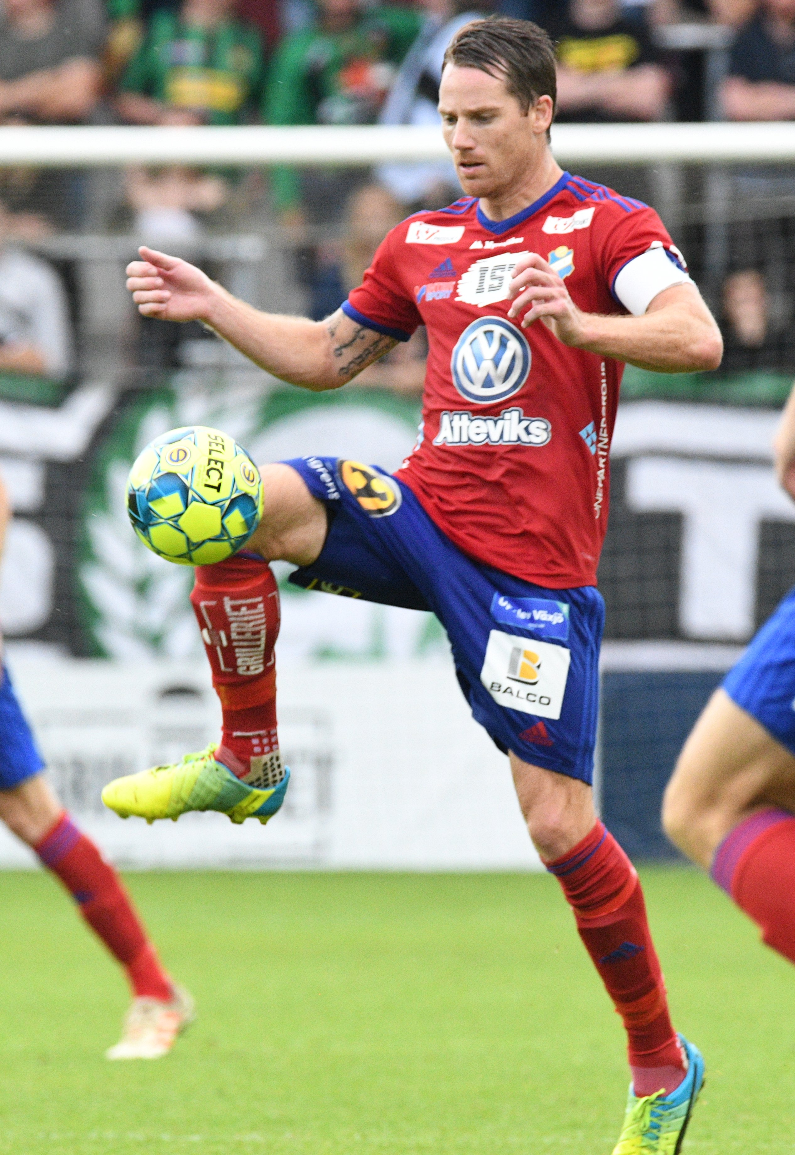 Swedish association football midfielder Johan Persson playing for Östers IF against GAIS at Myresjöhus Arena, August 2019.